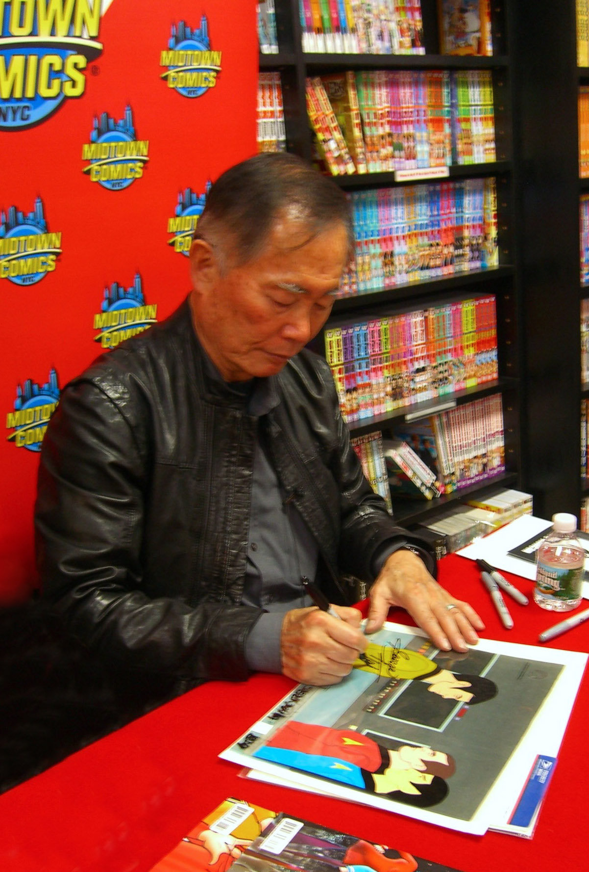 Star Trek actor George Takei autographing an original animation cell from Star Trek: The Animated Series at a December 5, 2012 signing for Archie's Pal Kevin Keller #6, at Midtown Comics Times Square in Manhattan. This photo was created by Luigi Novi. It is not in the public domain, and use of this file outside of the licensing terms is a copyright violation.